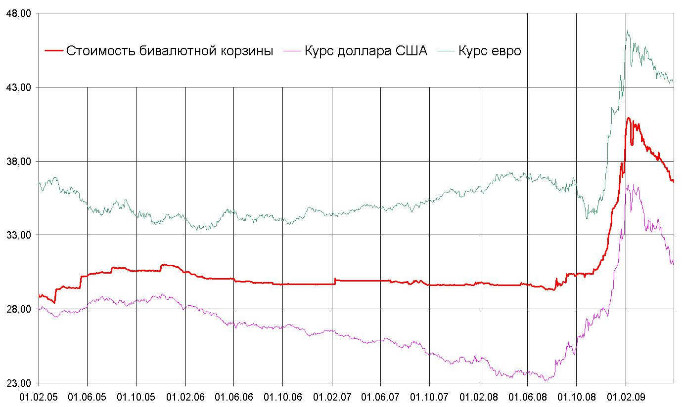 Griph of the cost of bicurrency basket from 01.02.2005 to 30.05.2009.